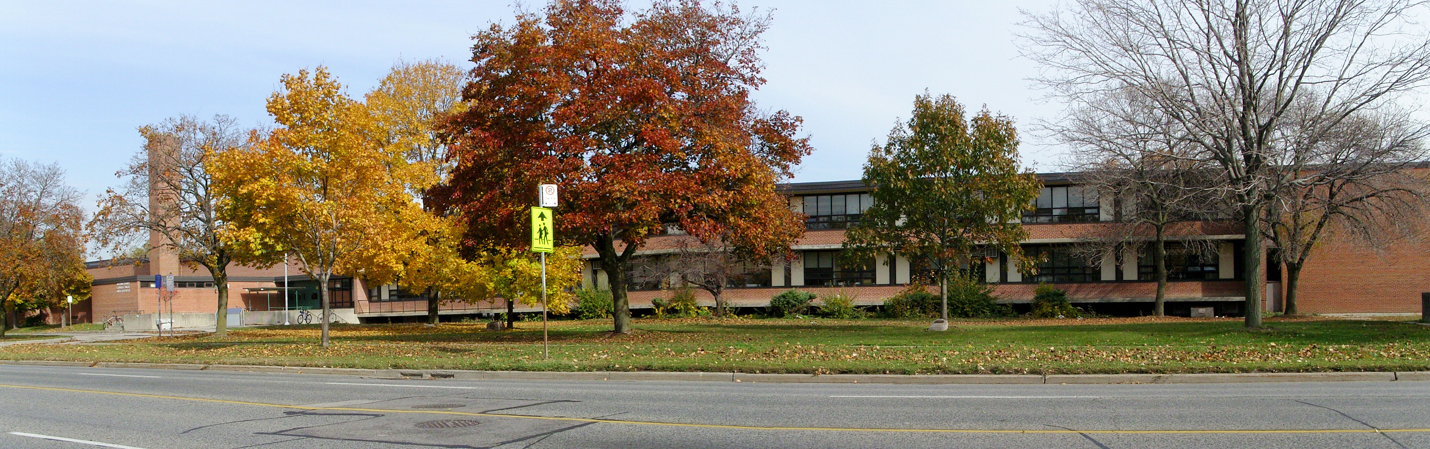 Front panorama of Agincourt Collegiate.